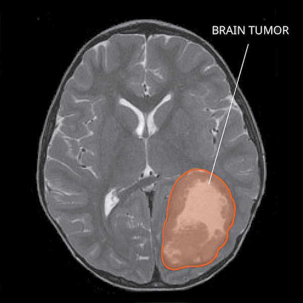 Magnetic Resonance Imaging of Primitive Neuroectodermal Tumor of the Central Nervous System (PNET)